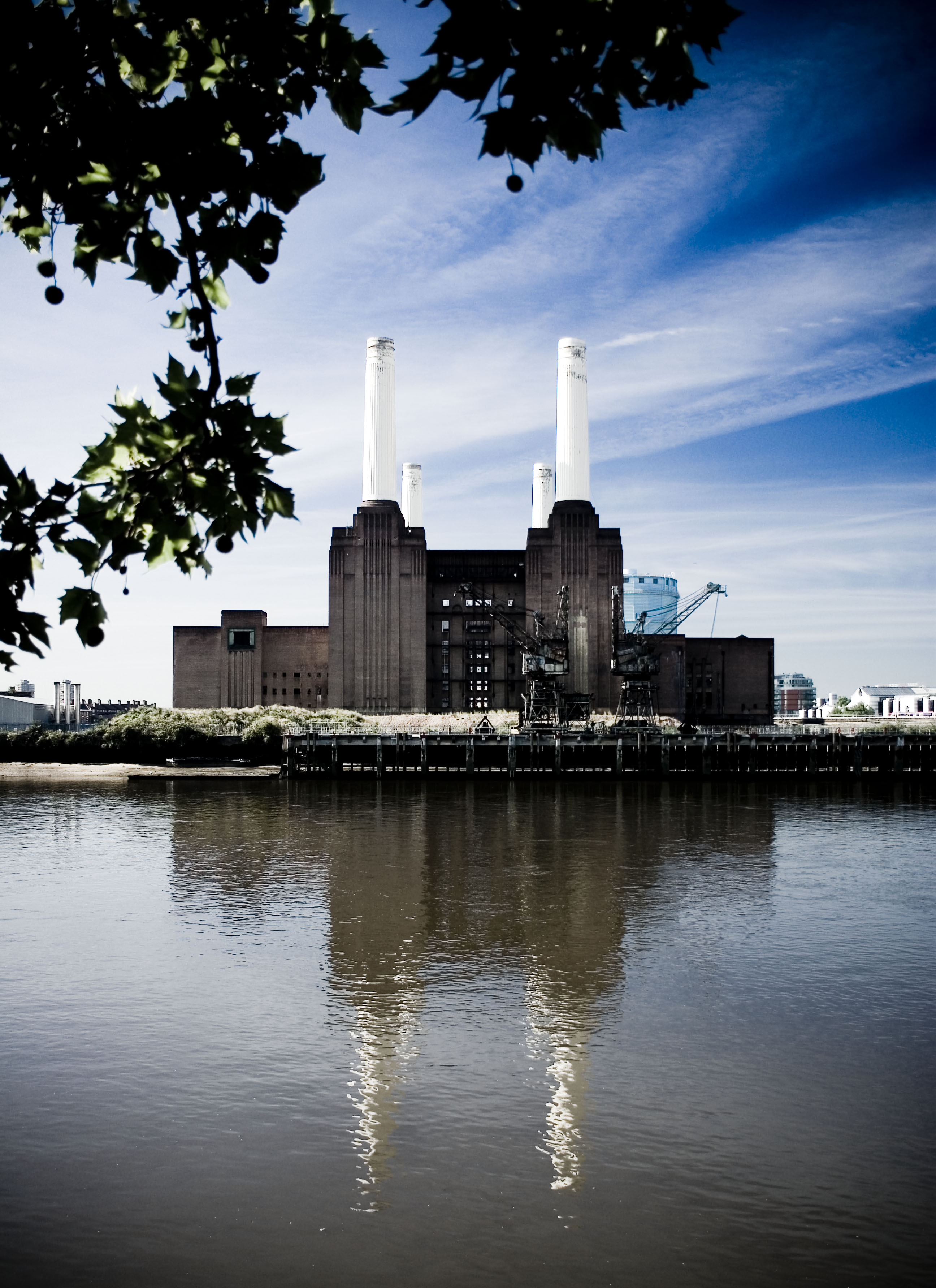 The Battersea Power Station is the largest brick building in Europe from across the Thames.